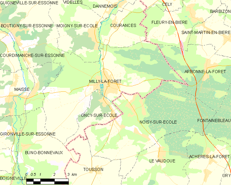 Map of French municipality Milly-la-Forêt